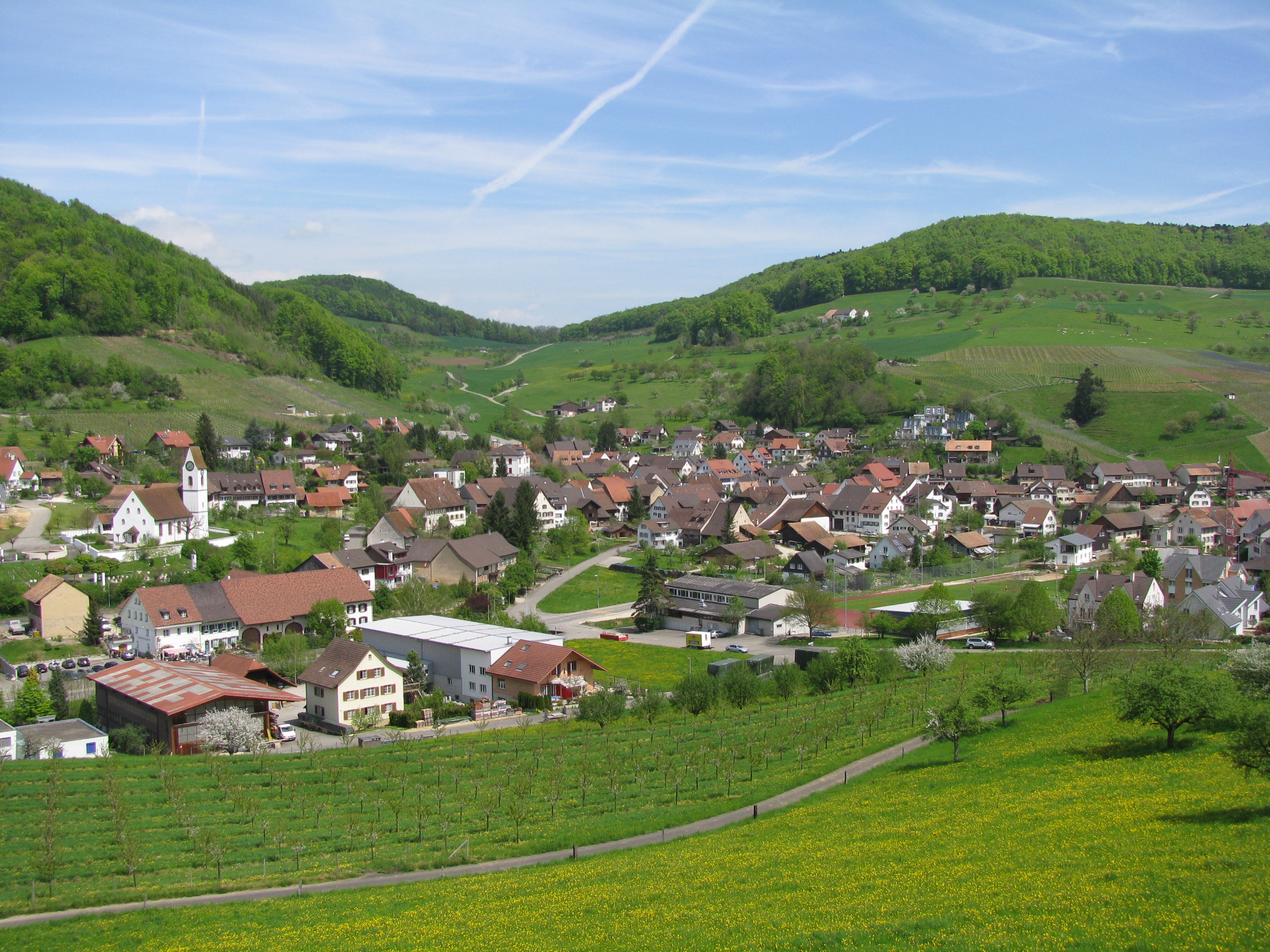 View of Maisprach